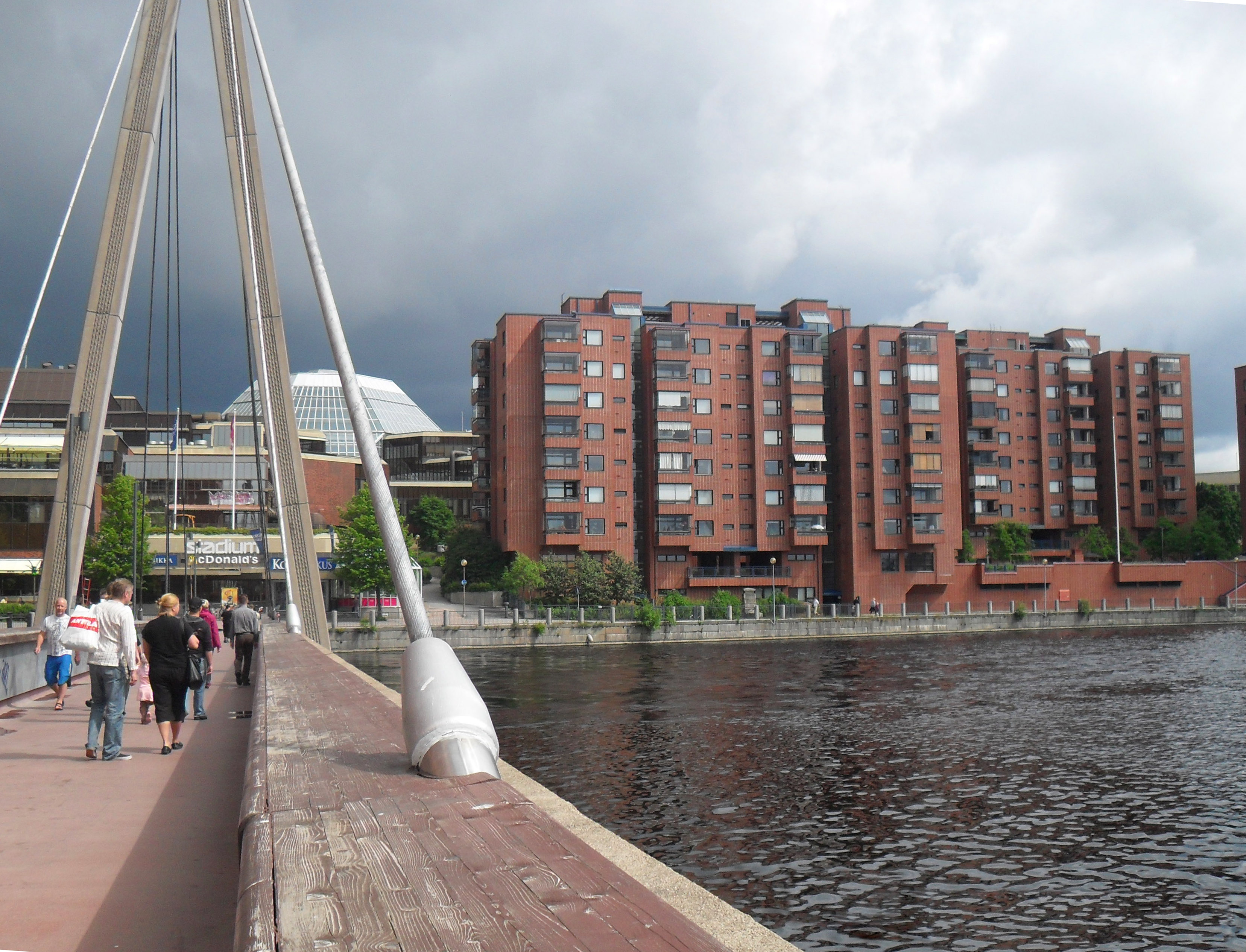 Vuolteensilta,near Koskikeskus shopping center, Tampere